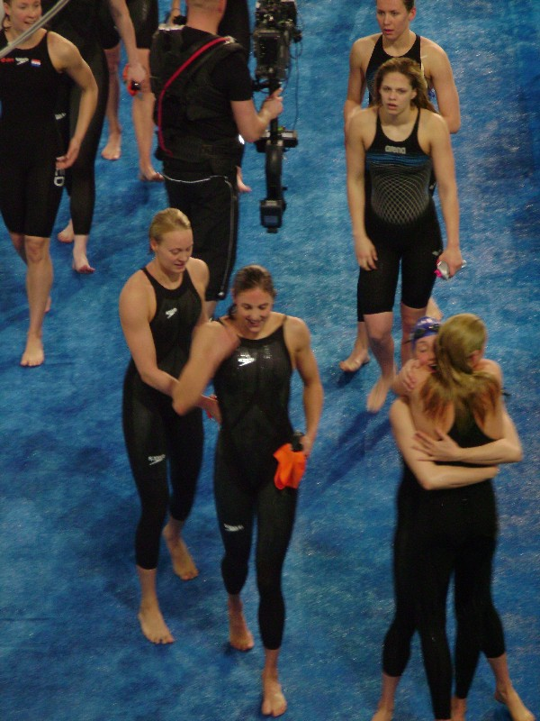 Marleen Veldhuis (front) and Inge Dekker direct after winning bronze at the 400m medley at the European LC Championships 2008 in Eindhoven